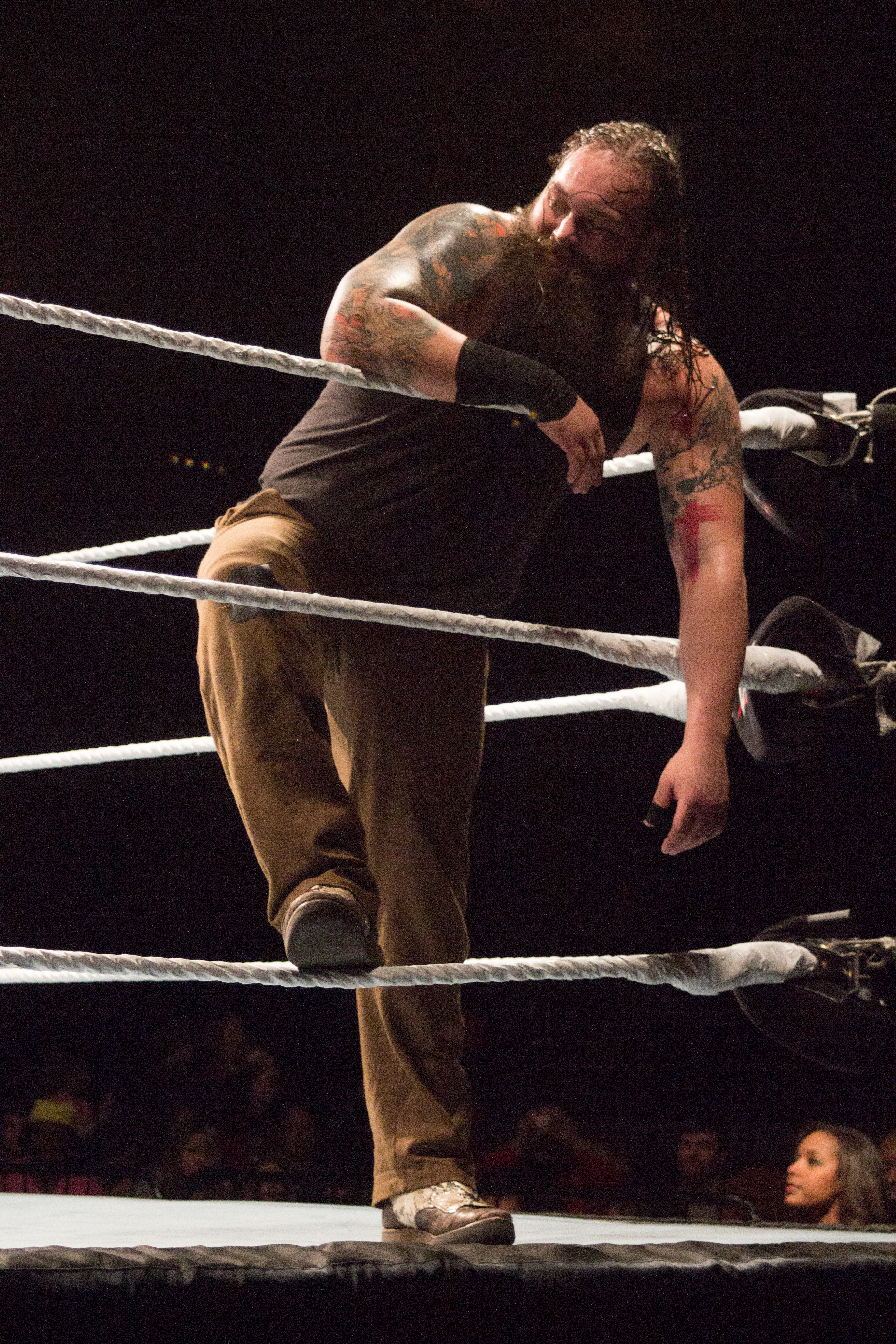 WWE House Show - Garrett Coliseum - 1/10/15